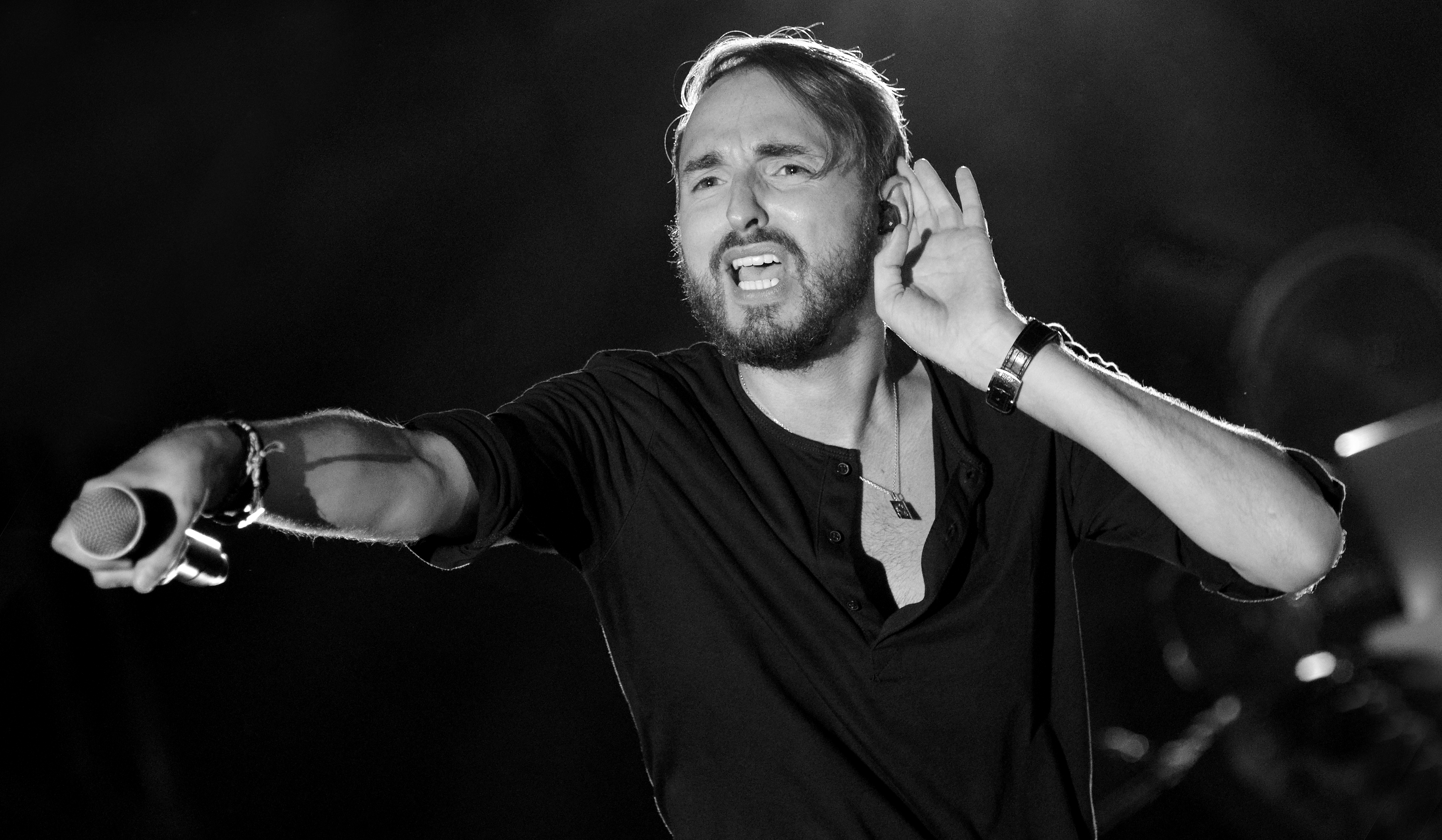 Christophe Willem Festival de Carcassonne 2015